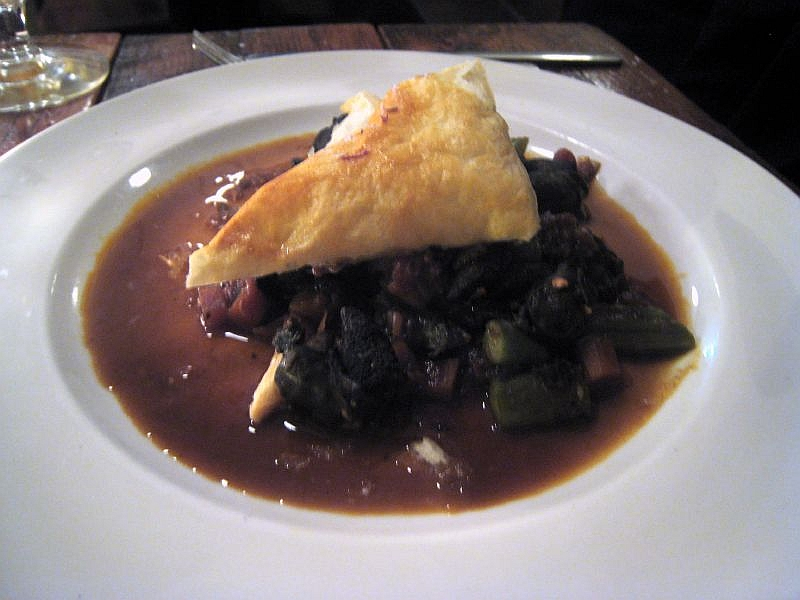 Kedjenou, traditional cuisine of Côte d'Ivoire. Also known as Kedjenou poulet and Kedjenou de Poulet, it is a spicy stew prepared with chicken or guinea hen and vegetables. This particular version uses escargots instead of poultry.